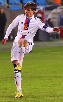 Valentin Stocker